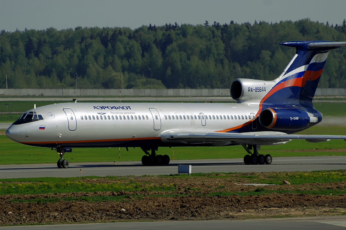 'Aeroflot"TU-154m RA-85644